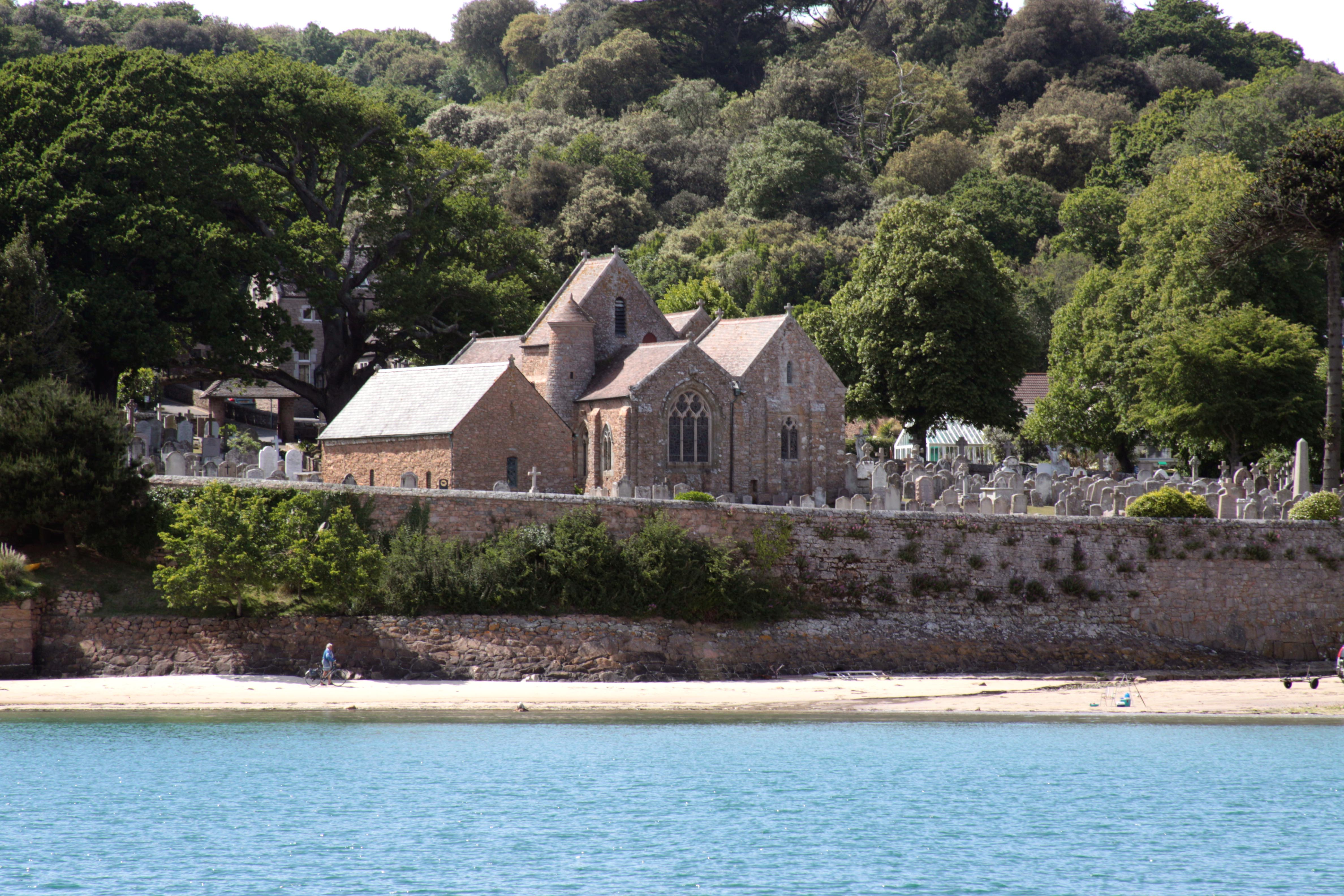 St Brelades Church with Fisherman's Chapel. Chapel to left of church